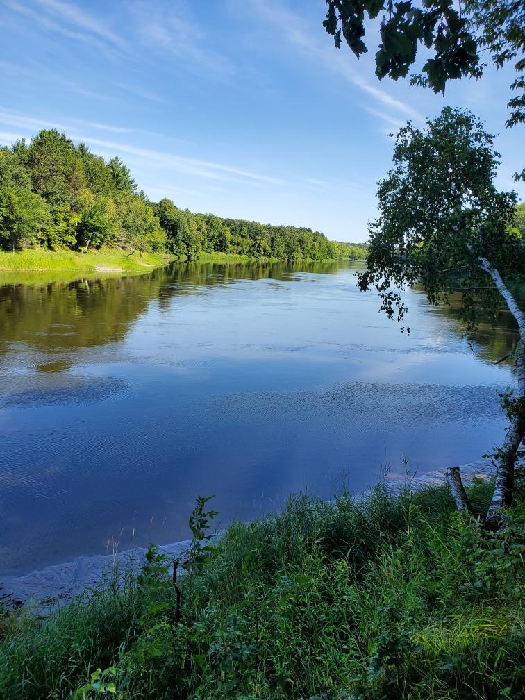 Photo from a hike in Crow Wing State Park